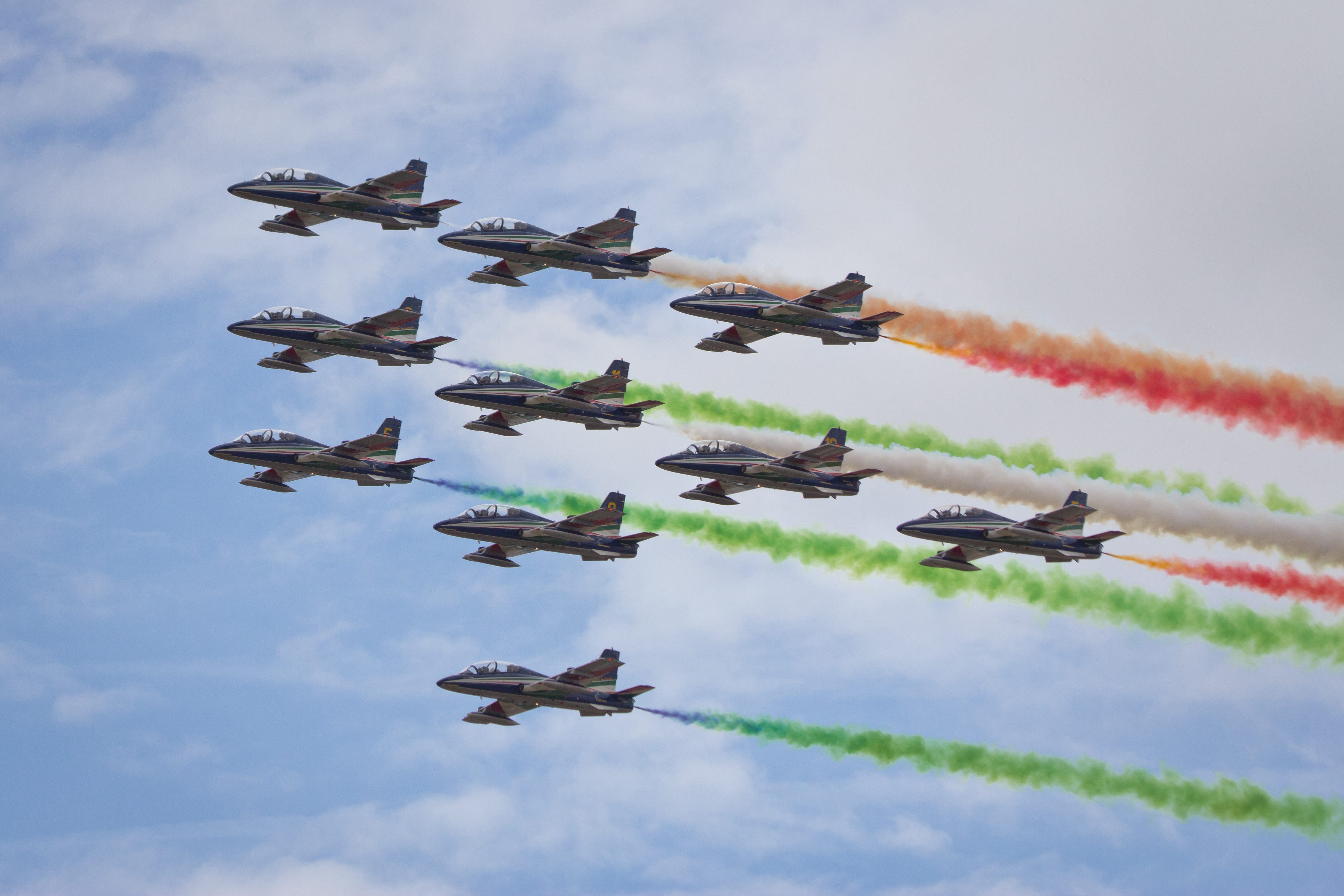 Italian aerobatics team Frecce Tricolori at Aire 75 airshow in Torrejón de Ardoz, Spain.